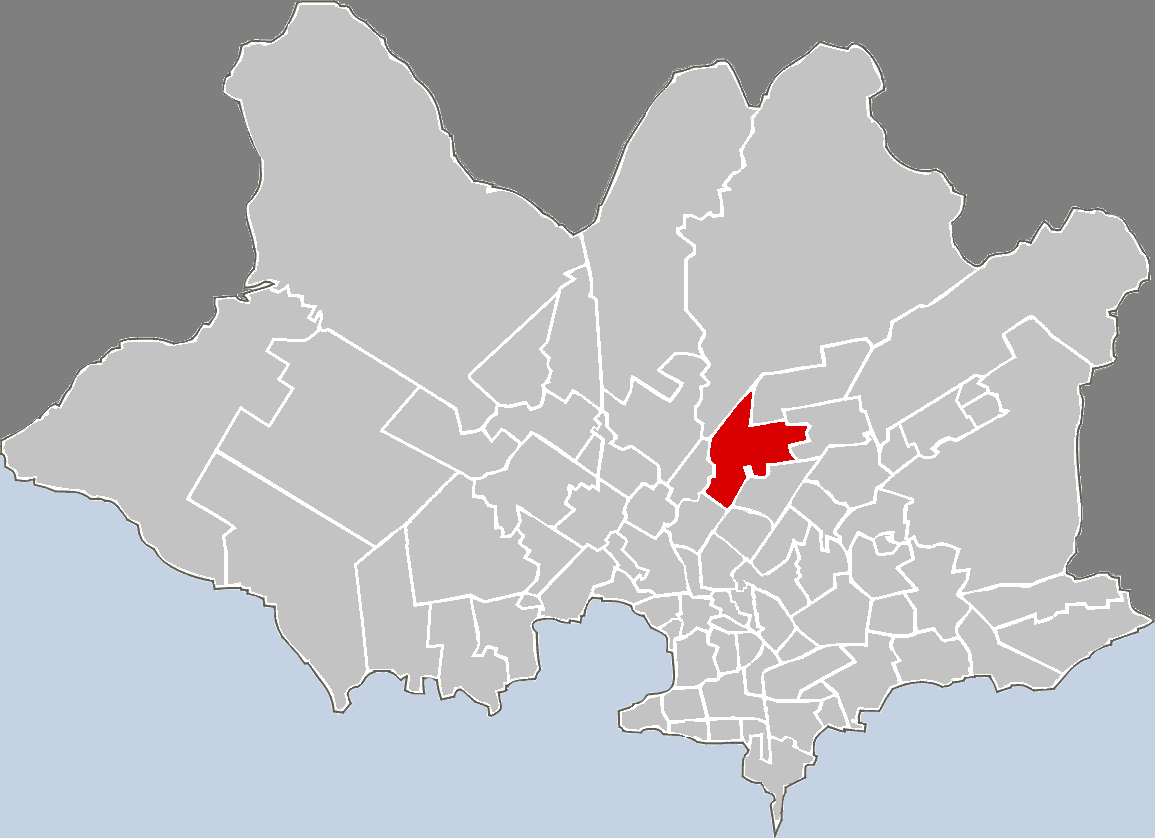 Map highlighting the given barrio in Montevideo.